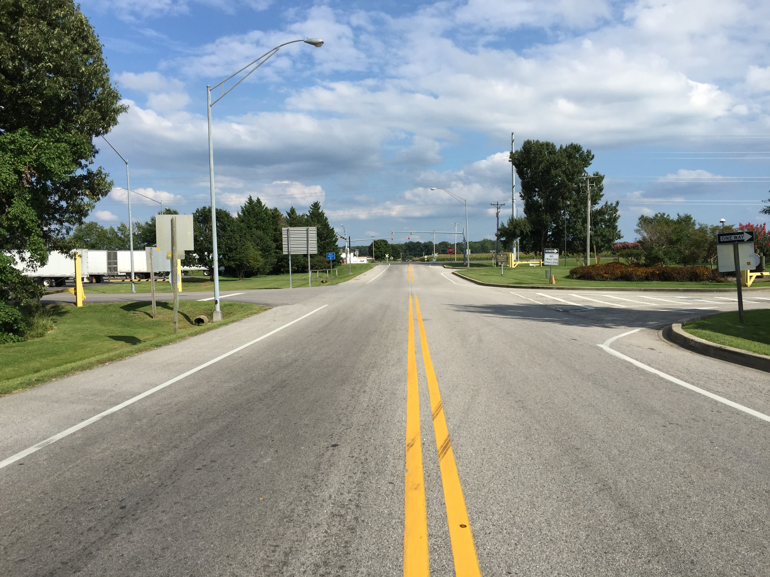 View east along Maryland State Route 834 (Hayden Road) at U.S. Route 301 (Blue Star Memorial Highway) in Hayden, Queen Anne's County, Maryland